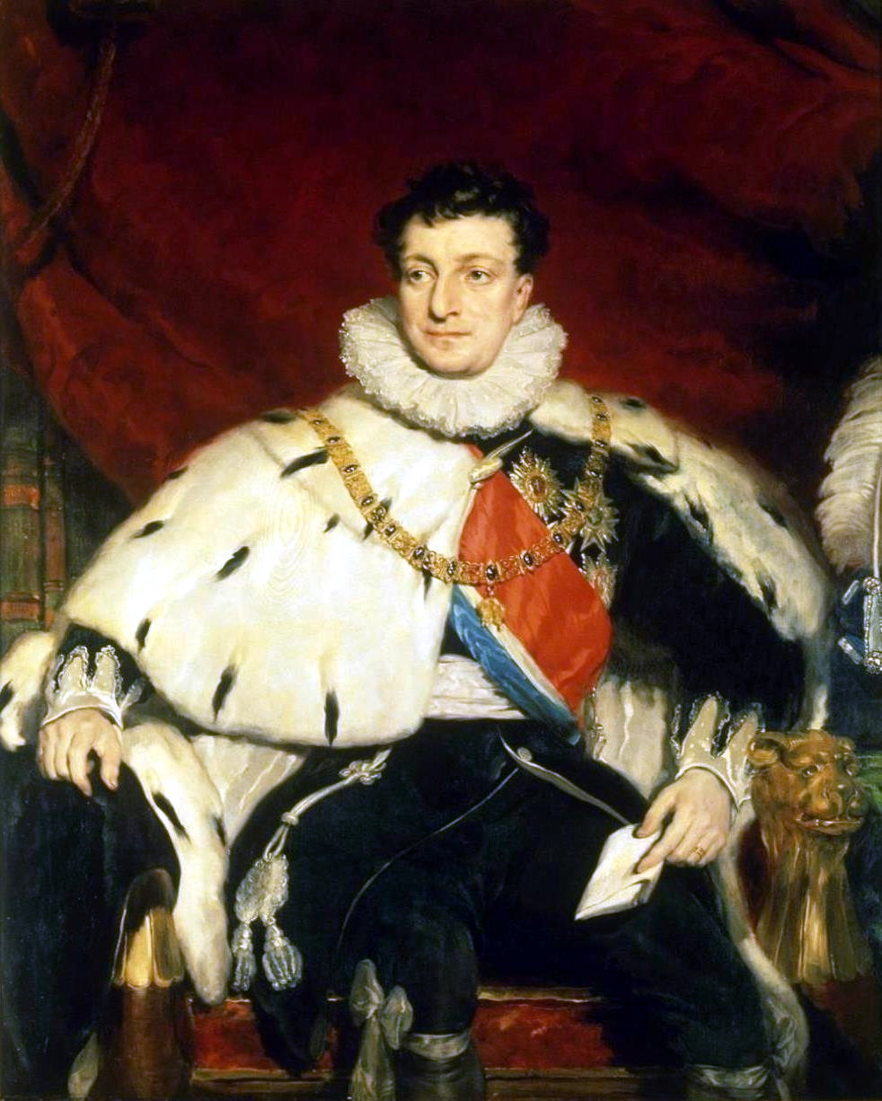 Pedro de Sousa Holstein, still Marquess of Palmela, wearing the costume of Peer of the Realm and ermine cloak.